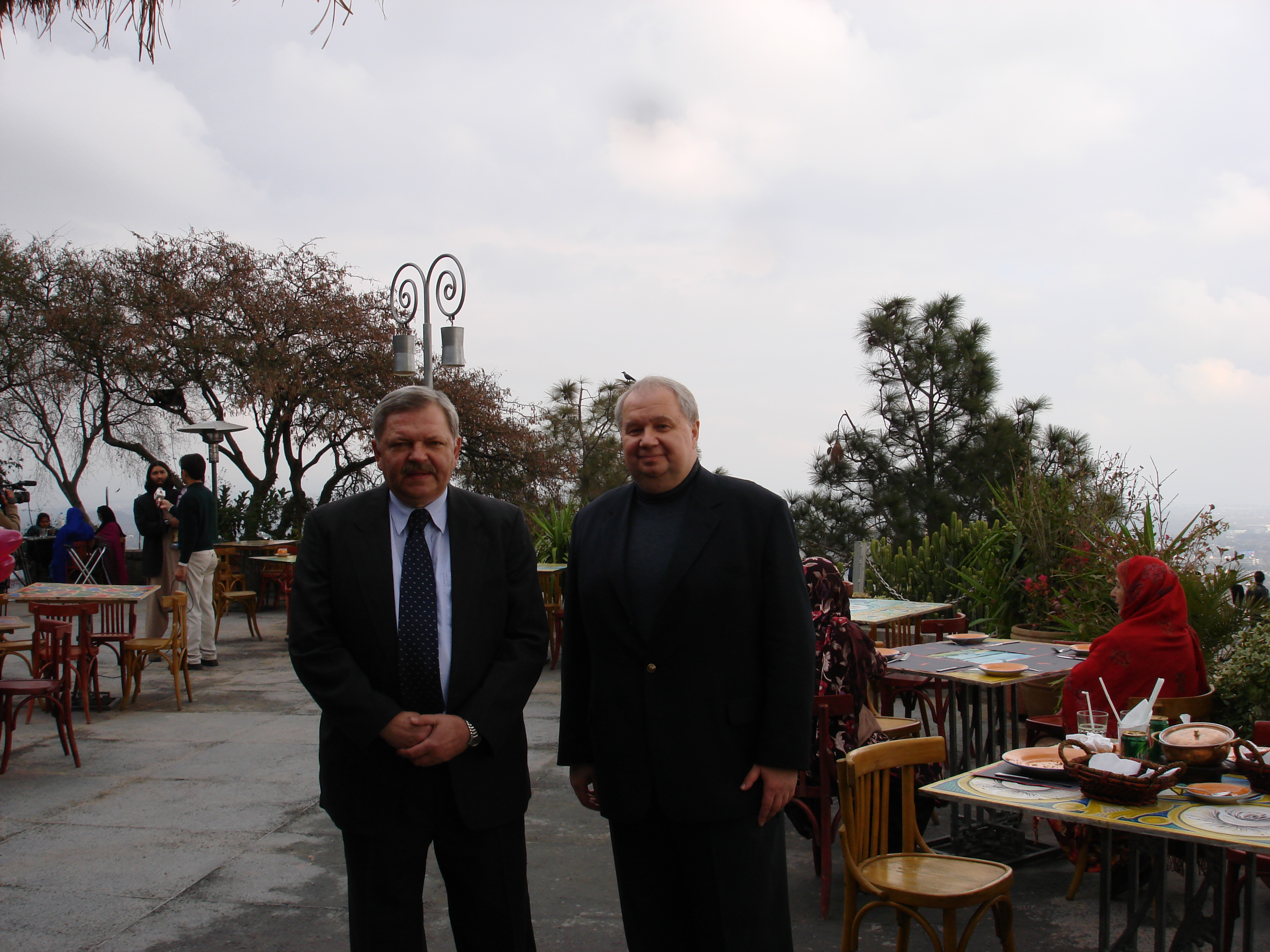 Russian Ambassador to Pakistan H.E. Serguei N. Peskov (left) and then Deputy Foreign Minister Mr. Serguei I. Kislyak